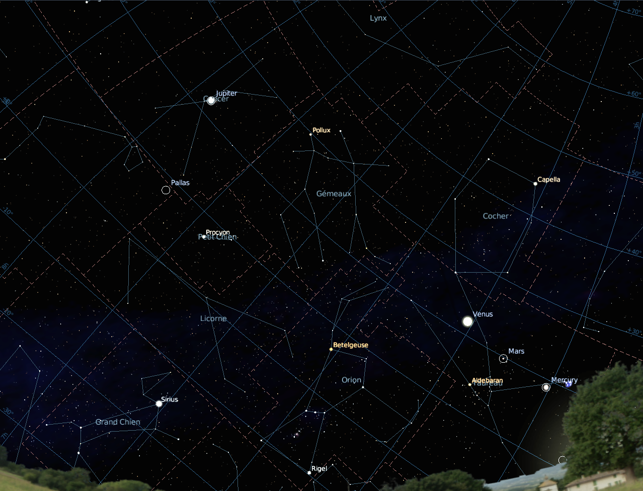 The sky in the WSW direction at sunset, on 19 April 1054, at the death of Pope Leo IX. A contemporary chronicler said he "saw as it were the path by which his soul was escorted by the angels to Heaven adorned with shining vestments and gleaming countless lamps". Recent authors think that it could be a very early sighting of the famous SN 1054 supernova, although it might very well be only referring to the proximity and alignment of Mars, Mercury and Venus, with Jupiter not very far away.